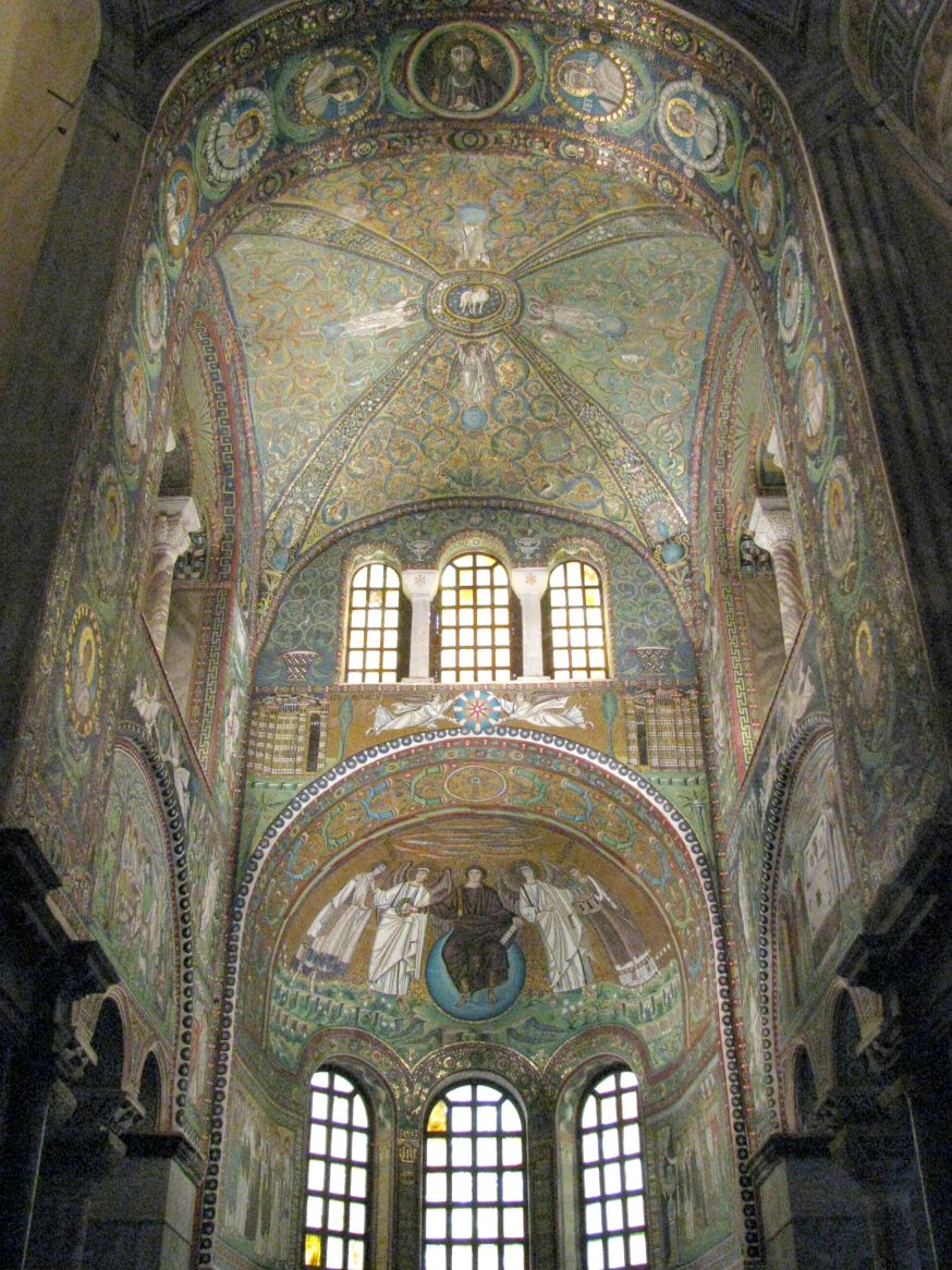 Mosaic in basilica San Vitale in Ravenna.